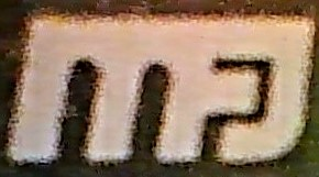 MFJ alternate logo.